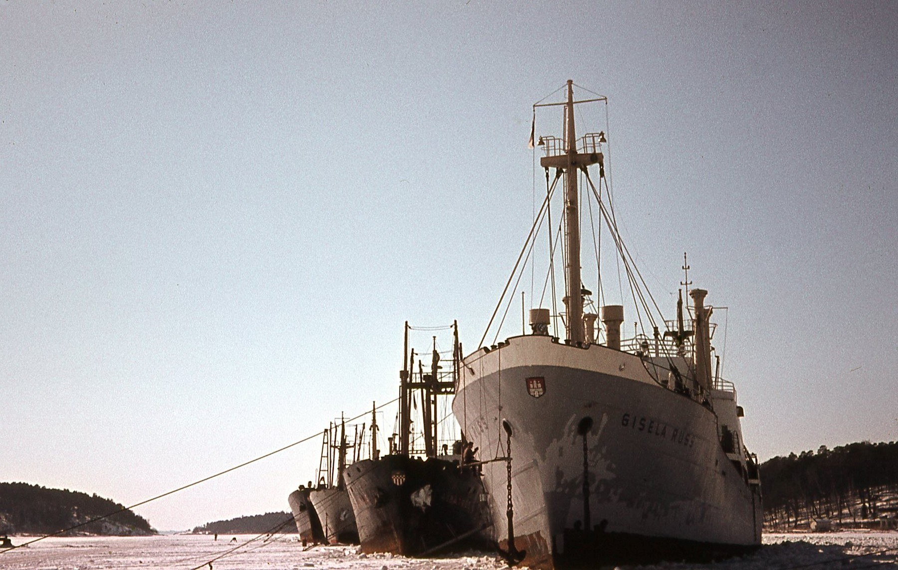 MS Gisela Russ, in roadstead of Turku when the Finnish customs went on strike for about a month.